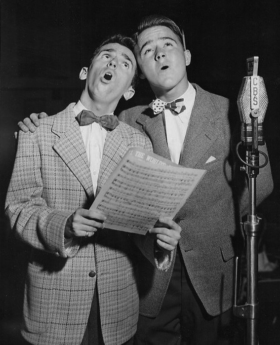 Photo of Jackie Kelk (left) and Dick Jones (right) from the radio program The Aldrich Family. Kelk played Homer Brown and Jones played Henry Aldrich from 1943 to 1944.